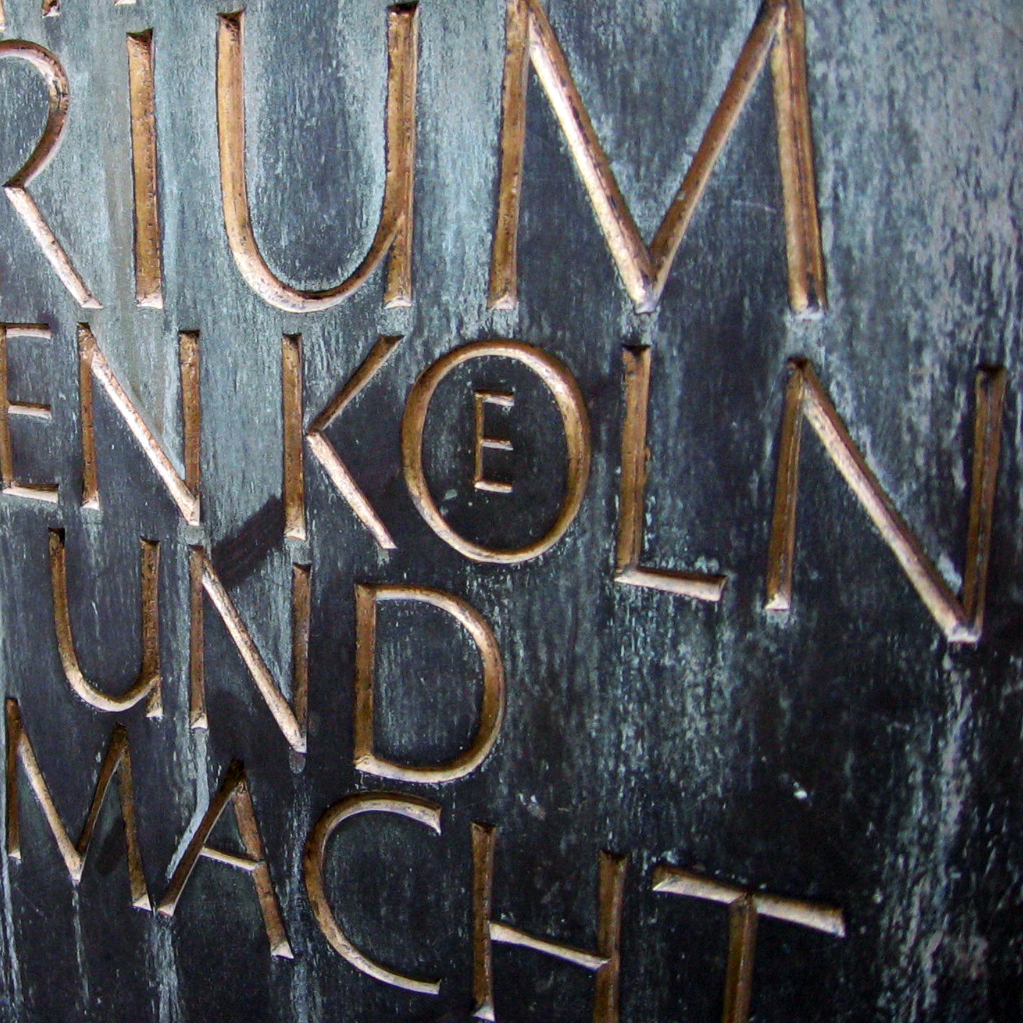 Unusual form of the OE or Ö ligature, with a small E inside the O. From an inscription in the crypt of Cologne Cathedral (the word shown is Koeln or Köln, German for Cologne).